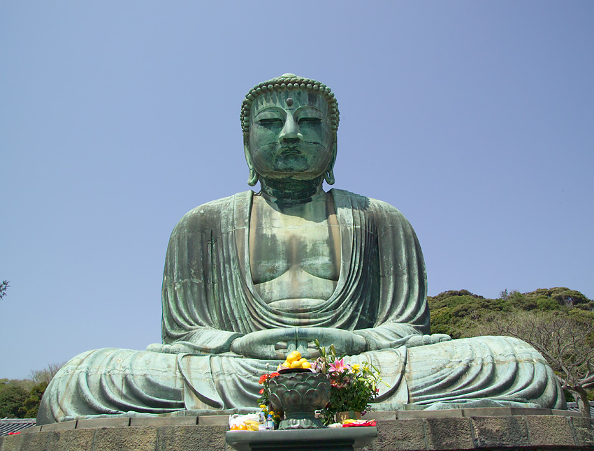 Great Buddha statue at Kamakura, Kanagawa Prefecture, Japan.